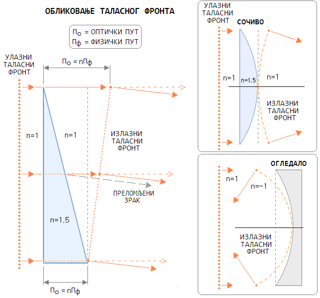 ПРОМЕНА ОБЛИКА ТАЛАСНОГ ФРОНТА КАО ПОСЛЕДИЦА ОБЛИКА И СВОЈСТВА ОПТИЧКЕ СРЕДИНЕ